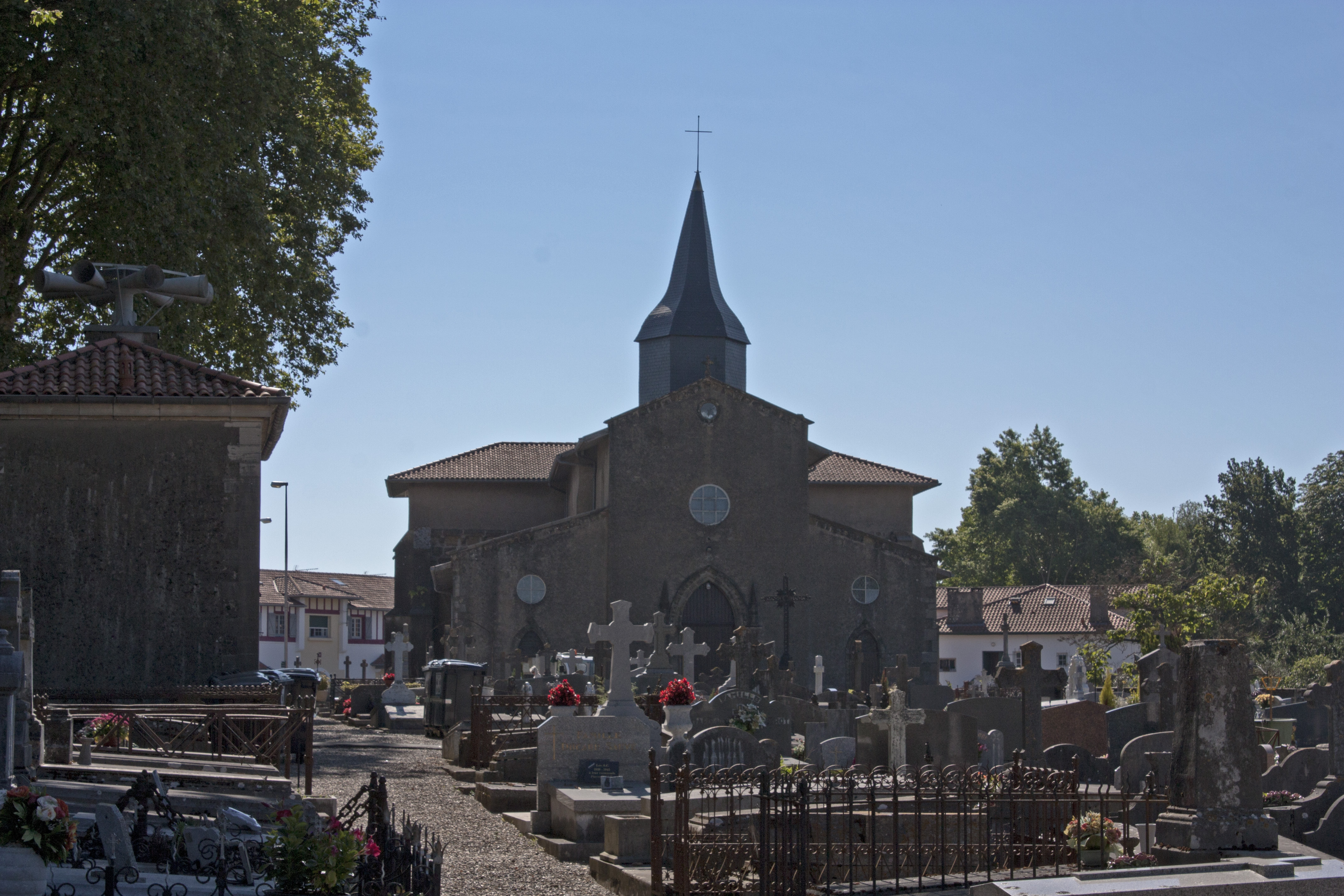 Church of Saint-Etienne-lés-Bayonne, surrounded by its old cemetery.